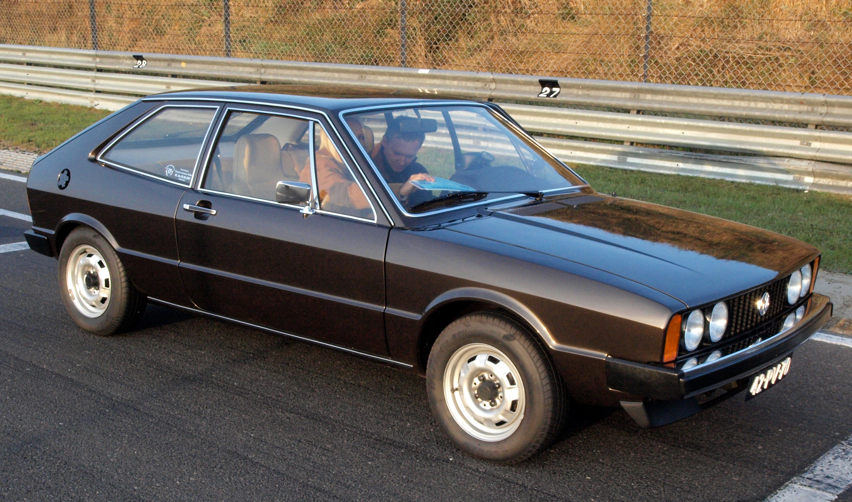 Photographed at the Nationaal Oldtimer Festival Zandvoort 2009, The Netherlands. OLYMPUS DIGITAL CAMERA